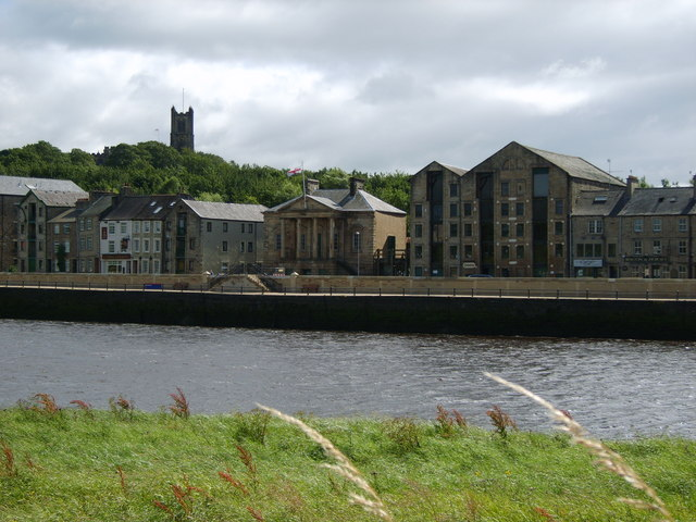 St. George's Quay Old Custom House in shot now a Maritime Museum